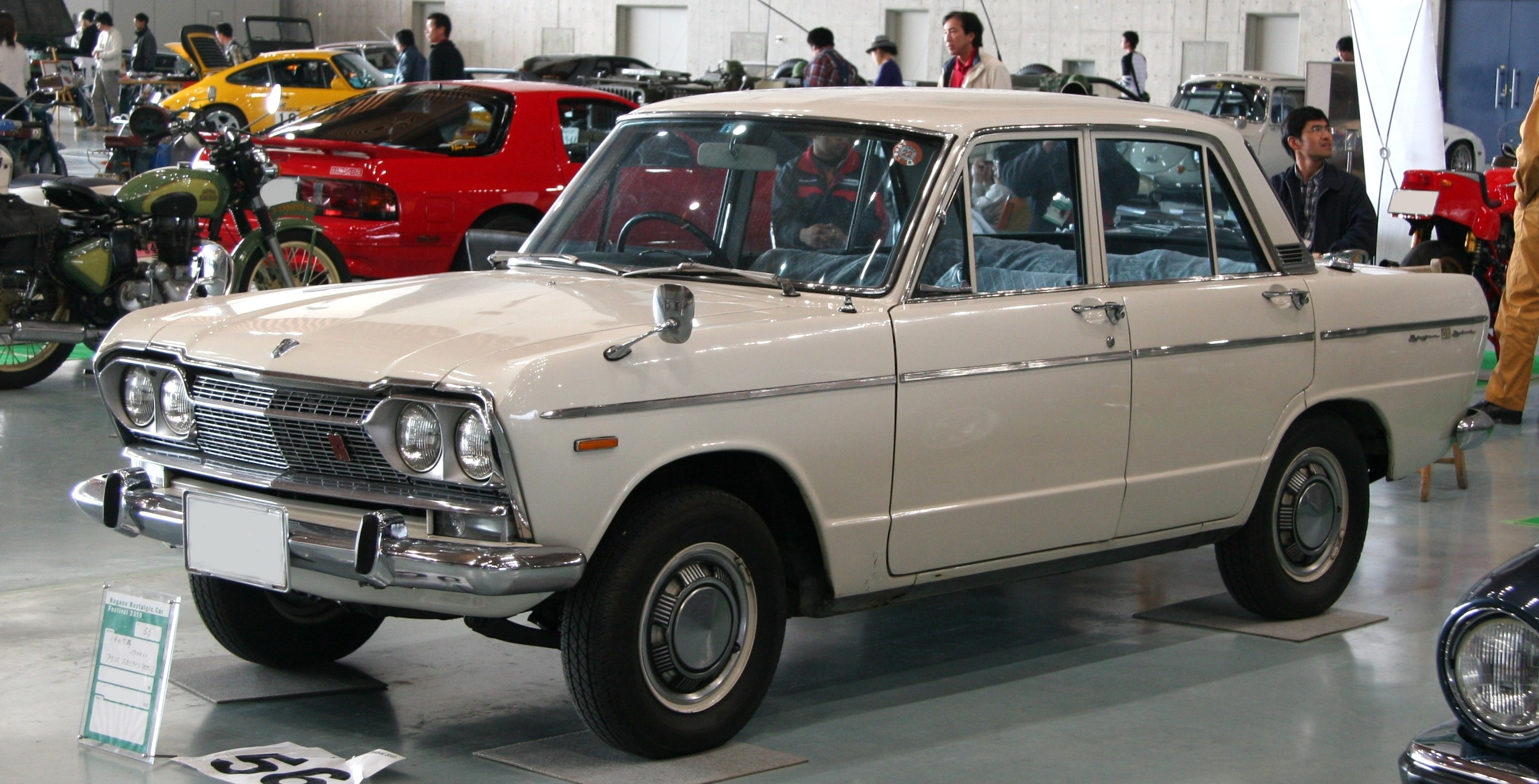 Prince Skyline